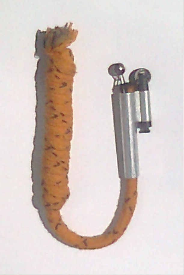 Tinder lighter, France 1960